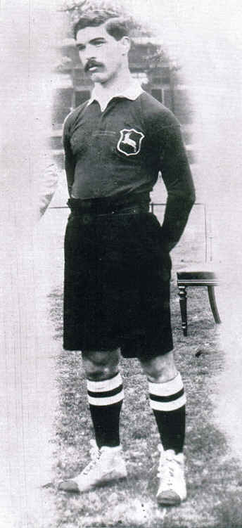 Full shot of South Africa Rugby union captain, Paul Roos on the first Springbok tour of Great Britain, Ireland and France in 1906-07